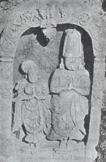 Statues of King Vishnuvardhana (1108–1152 CE) and his queen Santale, in the Kesava temple at Belur, Mysore state.